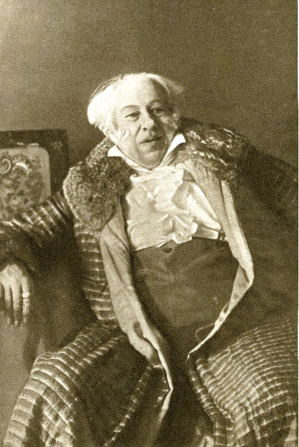 Konstantin Stanislavsky as Famusov in Woe from Wisdom by Aleksandr Griboyedov.